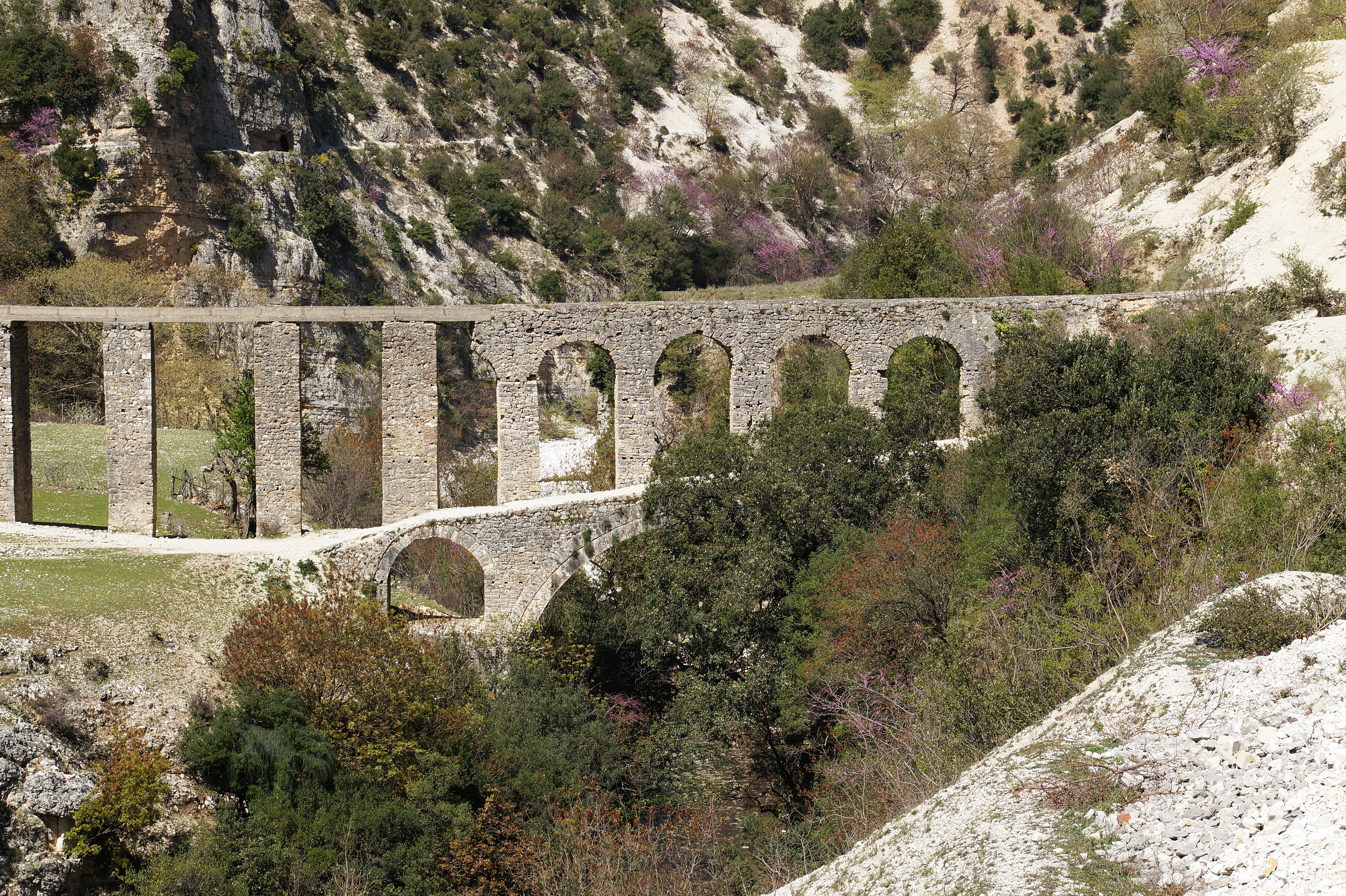 Bridge and aquaeduct in Bënçë, Southern Albania